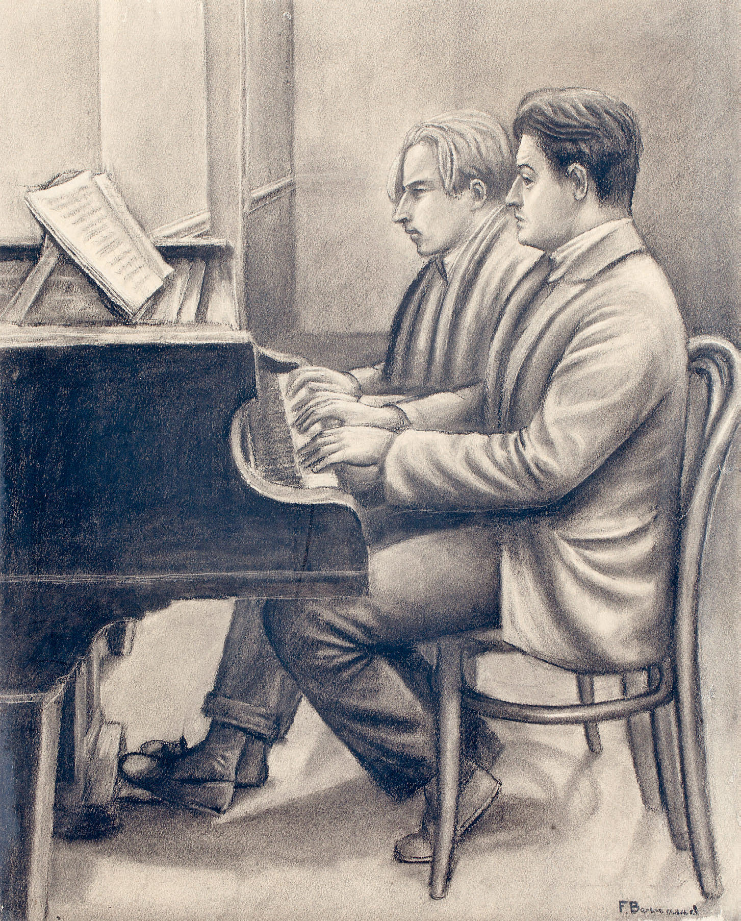 François Barraud and Albert Locca at the piano (playing with four hands)